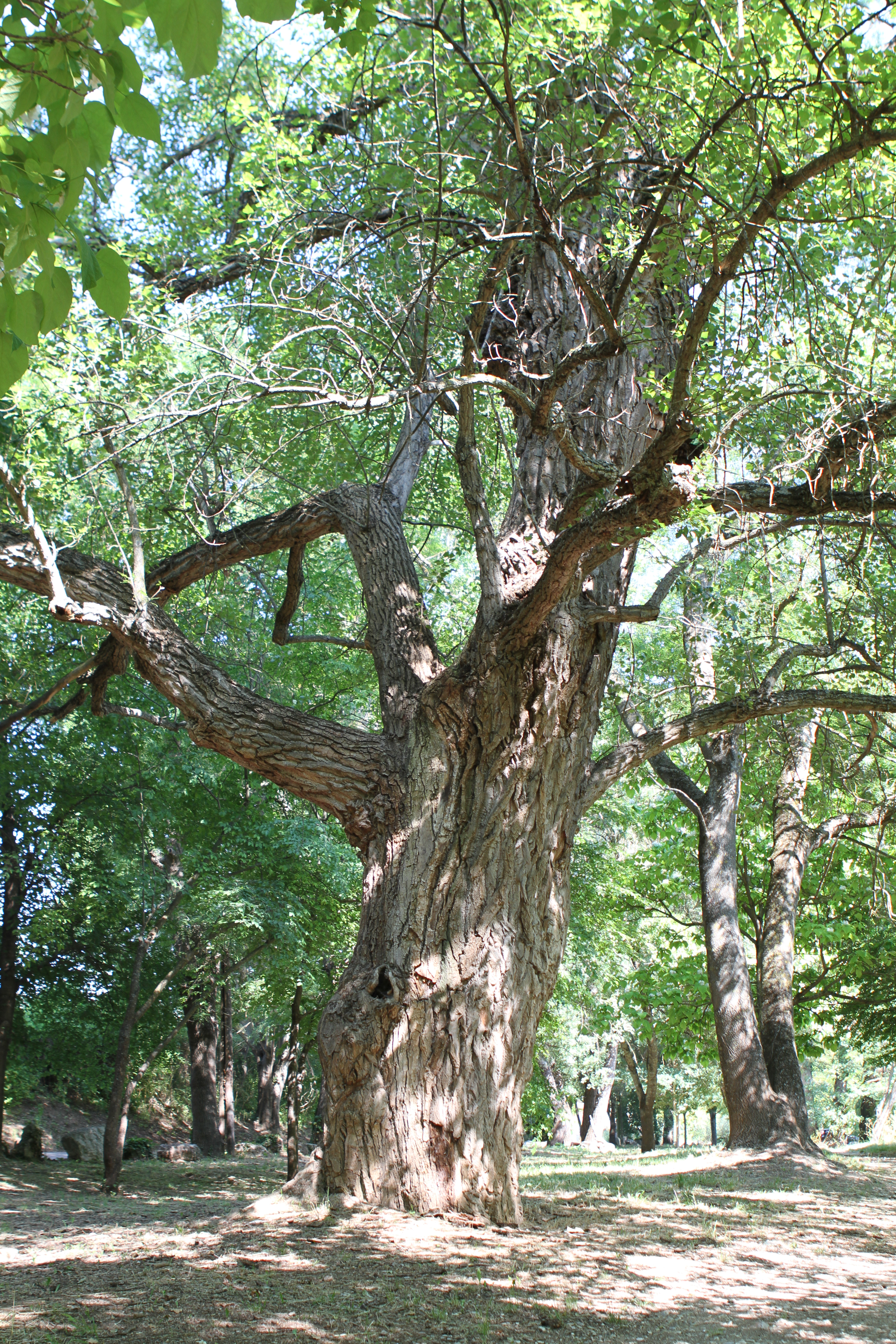 The Arc and its surroundings, near Aix-en-Provence (Bouches-du-Rhône, France)